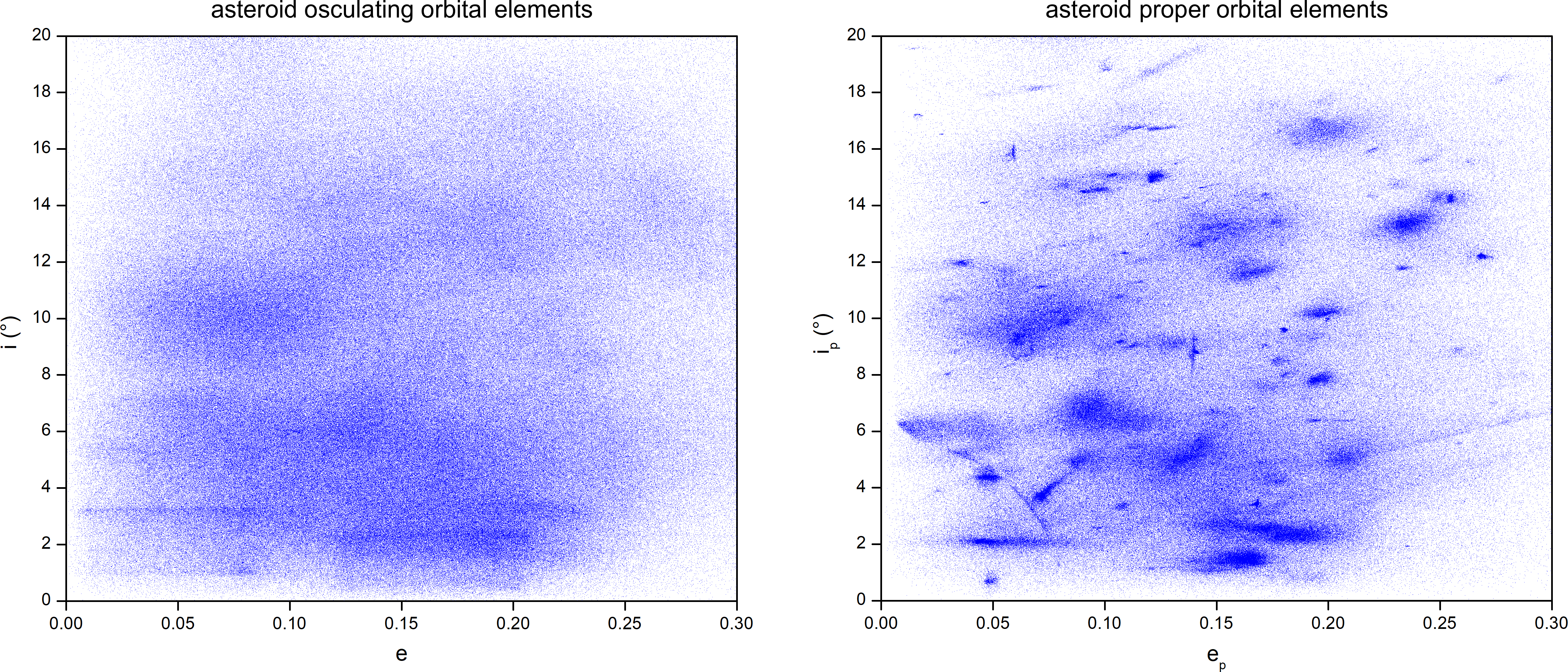 osculating (Keplerian) orbital elements (left) versus proper orbital elements (right) for numbered asteroids in the main belt. The plots are of inclinations i against eccentricities e. Clumps in the (right) plot of proper orbital elements indicate the location of asteroid families, while they are almost indistinguishable in the (left) plot of standard Keplerian orbital elements. This diagram was created by me (Piotr Deuar). The right plot is a reduced version of zh::Image:Asteroid_proper_elements_i_vs_e.png, an image made using data for 96944 minor planets that was obtained from the AstDys site. This data was dated March 2005, and computed by Z. Knezevic and A. Milani. The left plot uses Keplerian orbital element data for the same 96944 minor planets taken from the astorb database. This data was dated 27 Dec 2005, and computed by Edward Bowell.